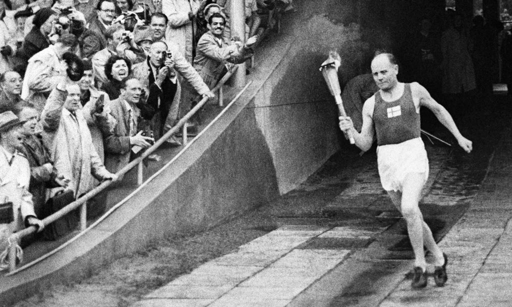 Paavo Nurmi enters the Helsinki Olympic Stadium through the marathon gate during the opening ceremonies of the 1952 Summer Olympics. He became the first well-known athlete to light the Olympic Cauldron.